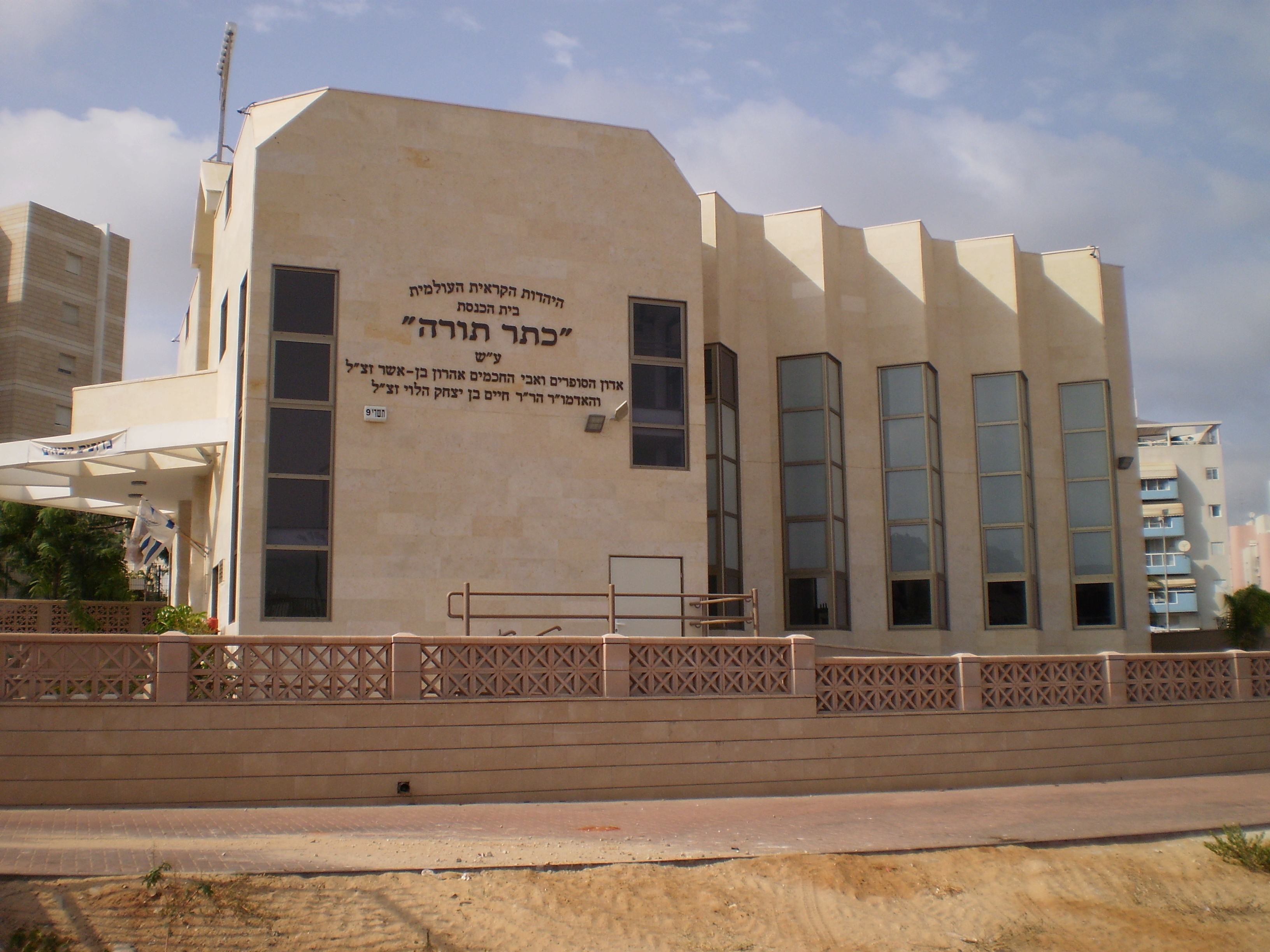 Keter Torah Karaite synagogue, Ashdod